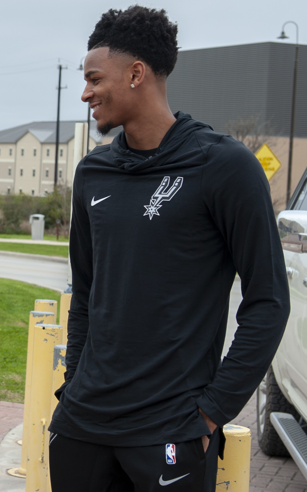 190228-N-IR096-0012 SAN ANTONIO (Feb. 28, 2019) Capt. Eric Evans, executive officer of Navy Medicine Training Support Center, greets NBA player Dejounte Murray, upon his arrival to the Medical Education and Training Campus. Murray's visit was organized ahead of the Spurs' Navy-themed Military Salute Night. (U.S. Navy photo by Mass Communication Specialist 2nd Class Shayla D. Hamilton/Released)